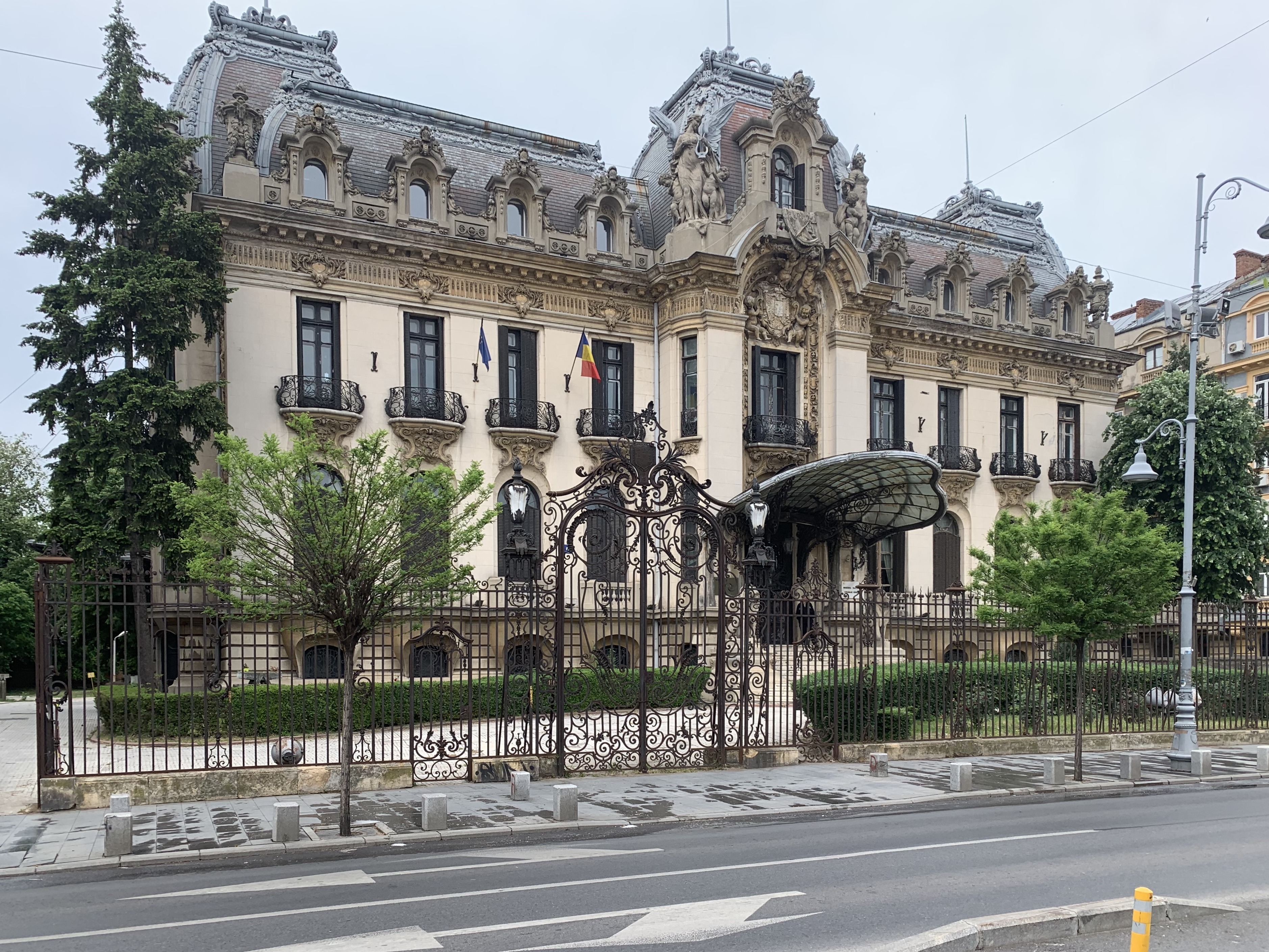 The George Enescu Museum from Bucharest (Romania)